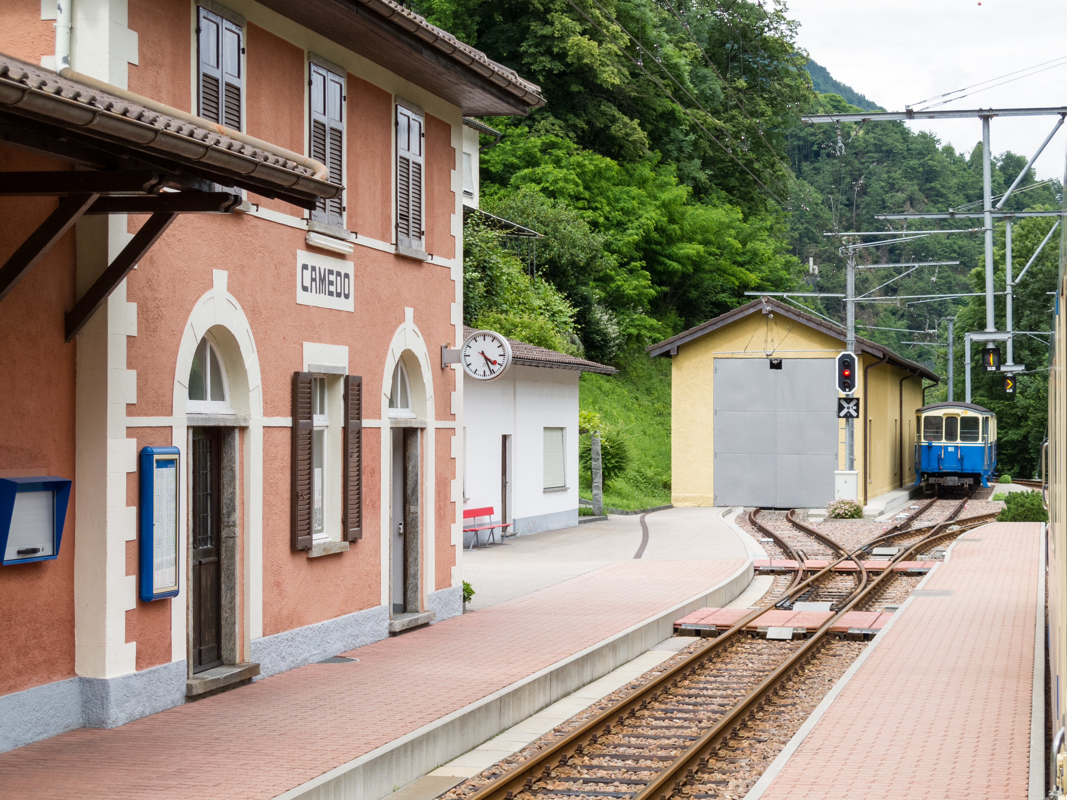 Cameo train station of the Domodossola–Locarno railway